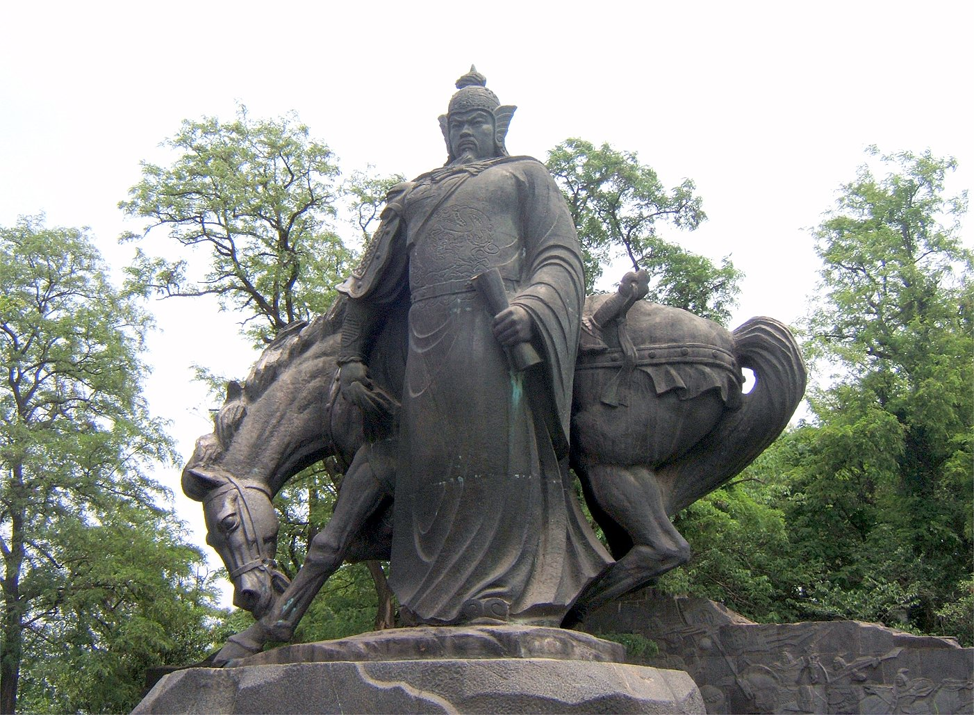 Statue of Yue Fei in Yellow Crane Tower Park in Wuhan